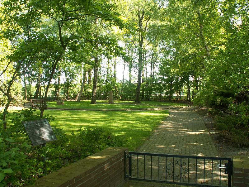 Cemetery "Friedhof Herbrum-Aschendorf", this is NOT the close-by "Kamp Aschendorfermoor"!